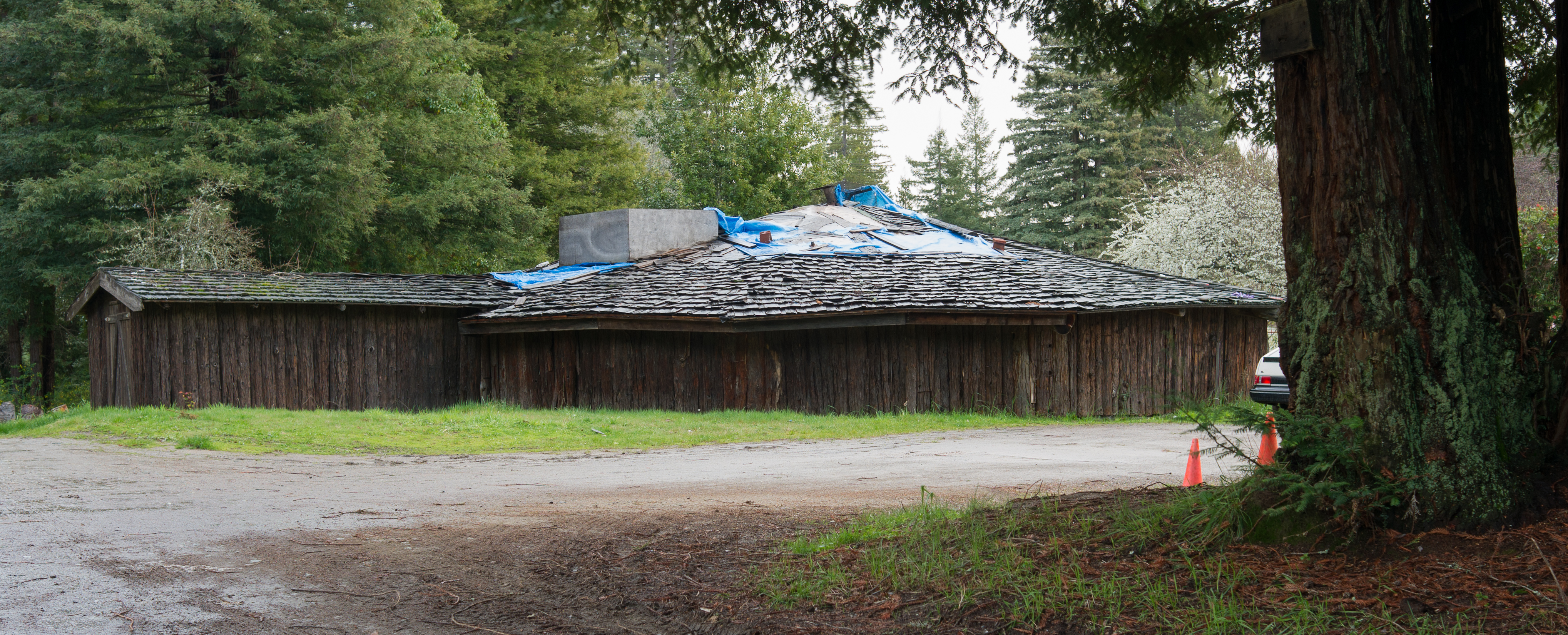 Old Roundhouse of the Kashia at Tsu nun u shinal (Huckleberry Heights), March 2012.